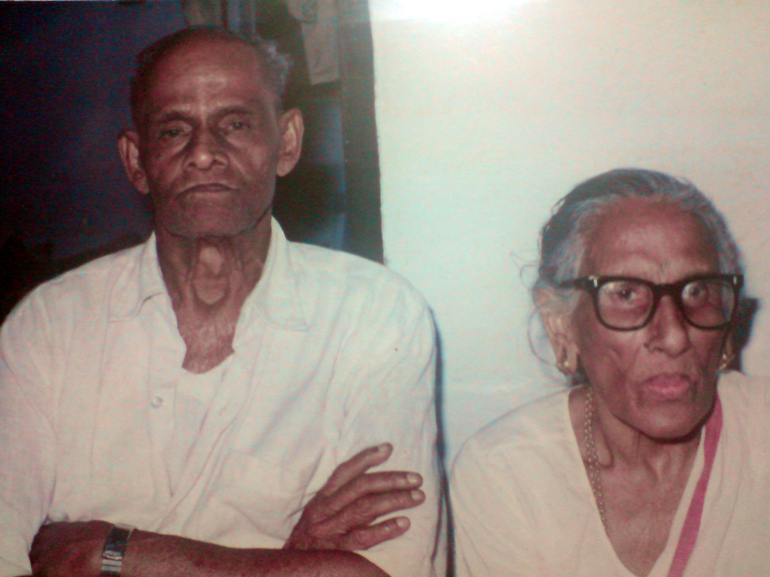 Politician P.M. Kunhiraman Nambiar and his wife Thiyyareth Kunju Parvathy Amma. The original photograph was taken in 1982 during a private function at my residence. The negative of this film image has been lost irrecoverably and this photo is pasted on a picture frame and is in a position that it cannot be scanned. So I took a photograph of this image in my mobile phone.